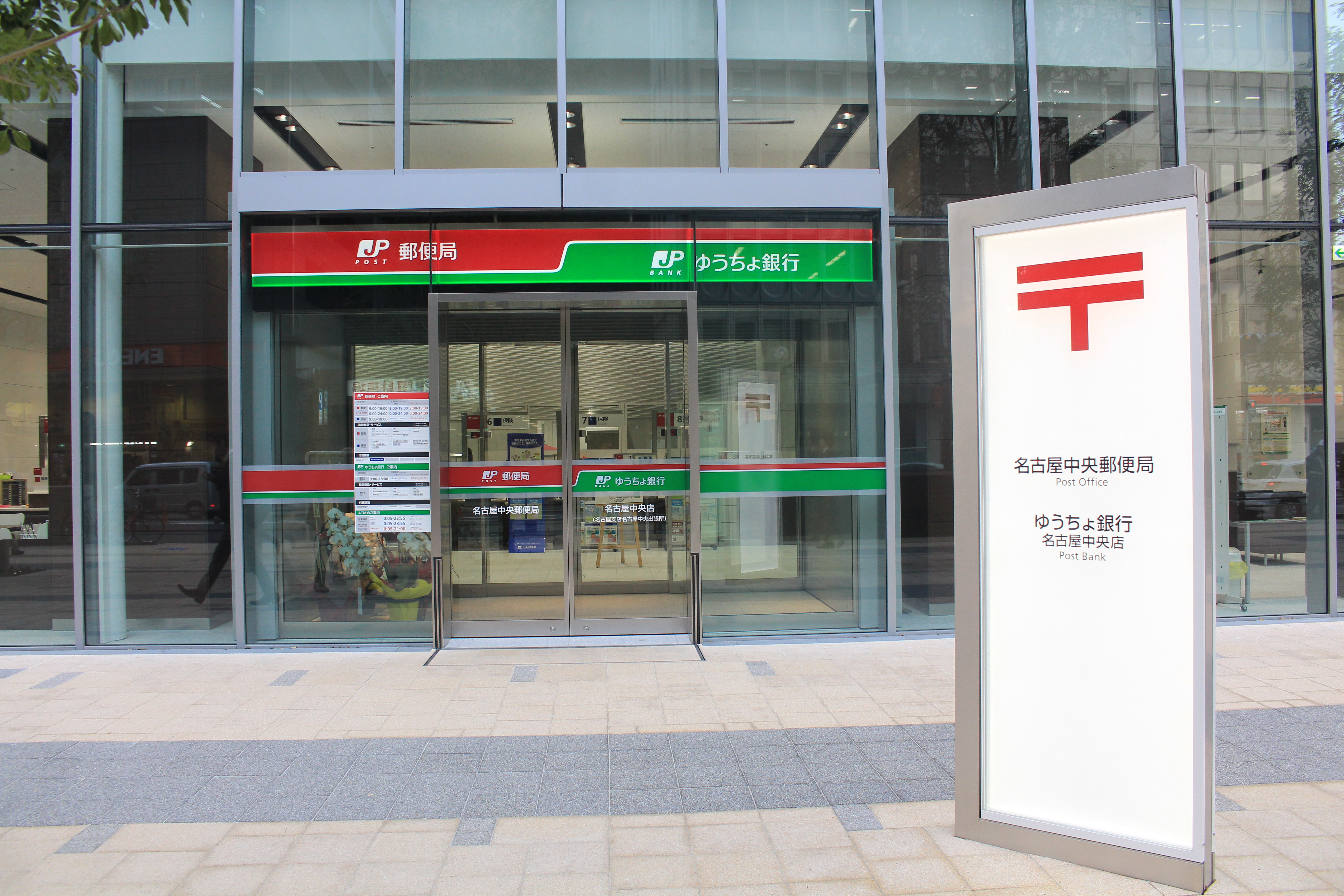 Nagoya central Post office and Posk bank in JP Tower Nagoya, Meieki, Nakamura-ku, Nagoya, Aichi prefecture, Japan.